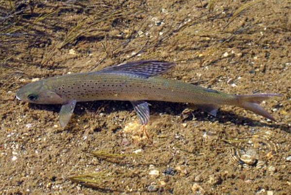 An Arctic Grayling in Yellowstone Park